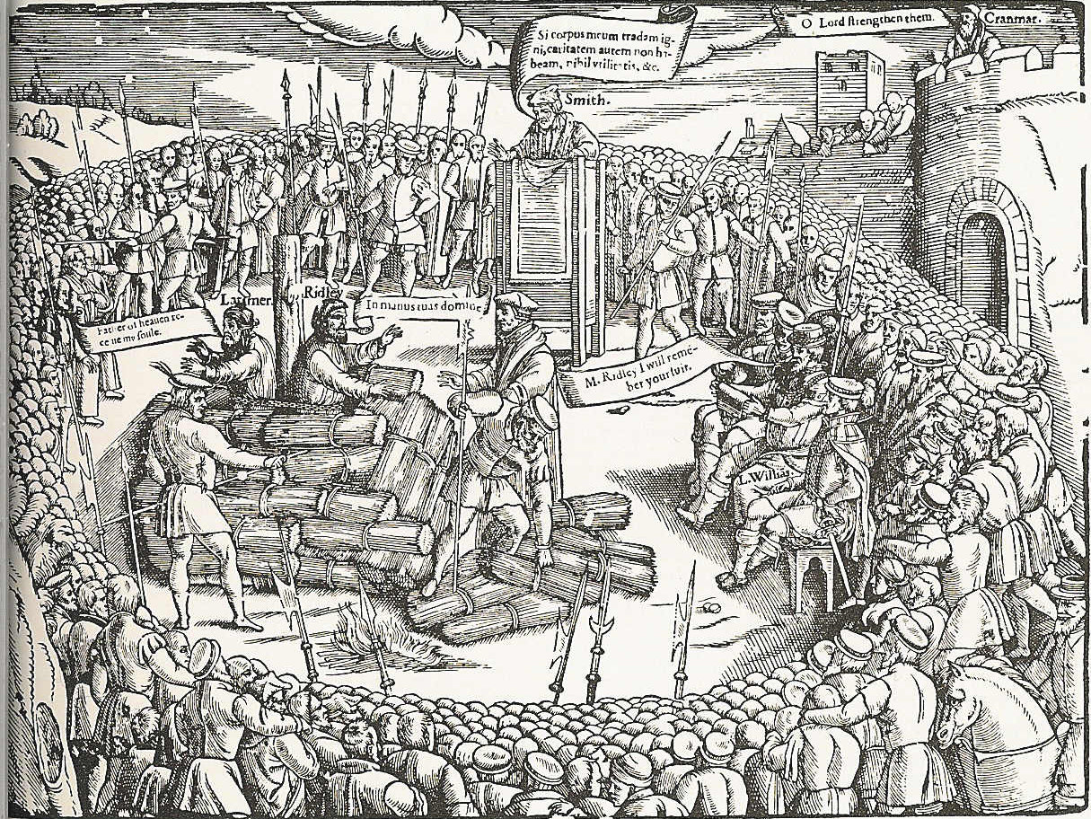 Hugh Latimer and Nicholas Ridley martyred by being burnt at the stake. John Foxe's Book of Martyrs.